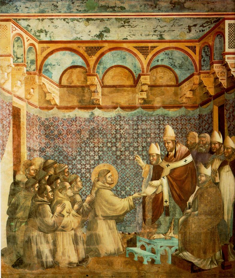 Legend of St Francis